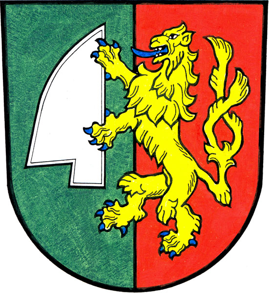 Coat of arms of Nové Lublice, Opava District